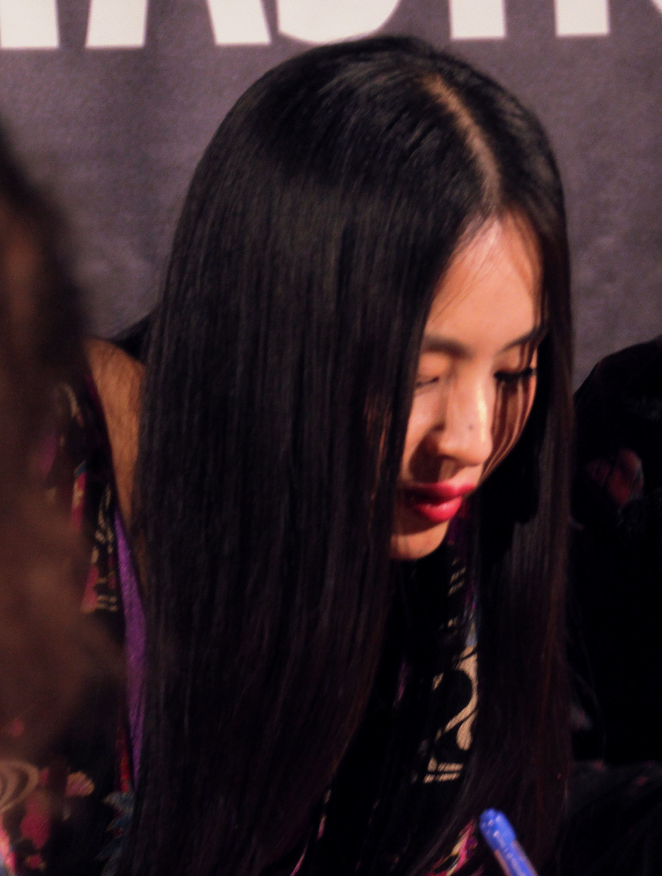 Yoshihiro Nishimura & Eihi Shiina signing autographs. I know the director liked it because he retweeted this picture later the next day from my Twitter